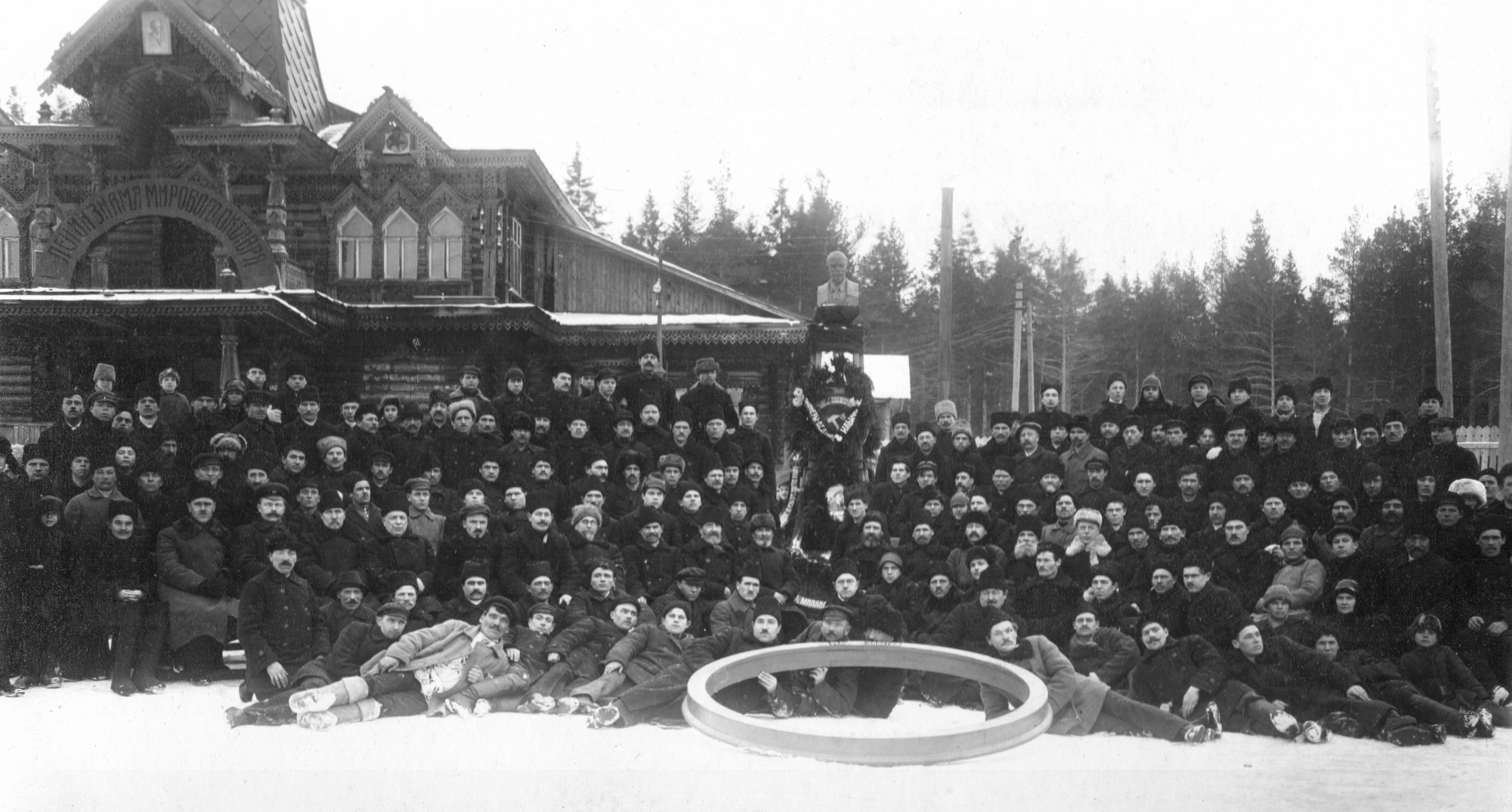 millionth tire